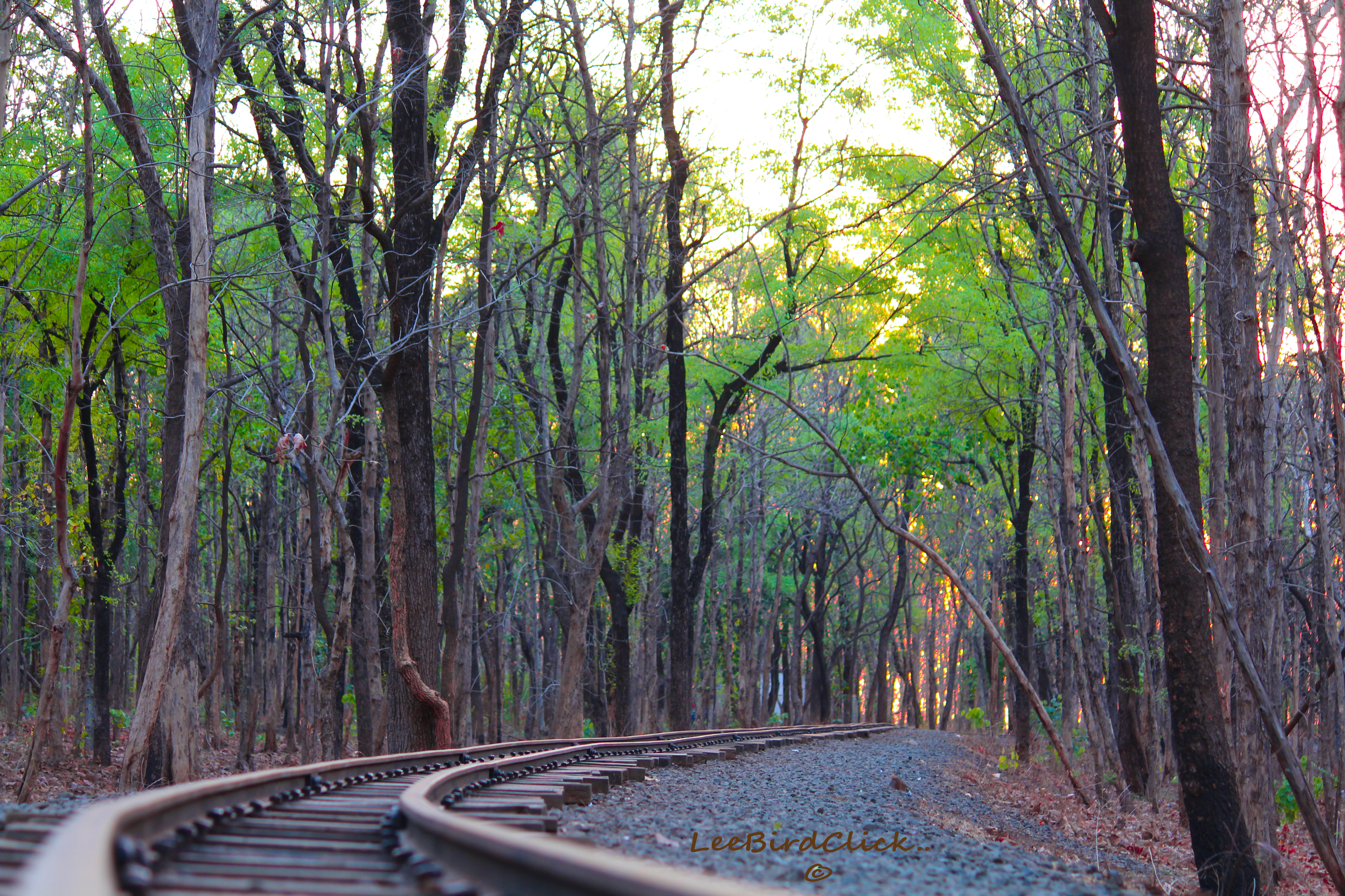 Seminary Hill